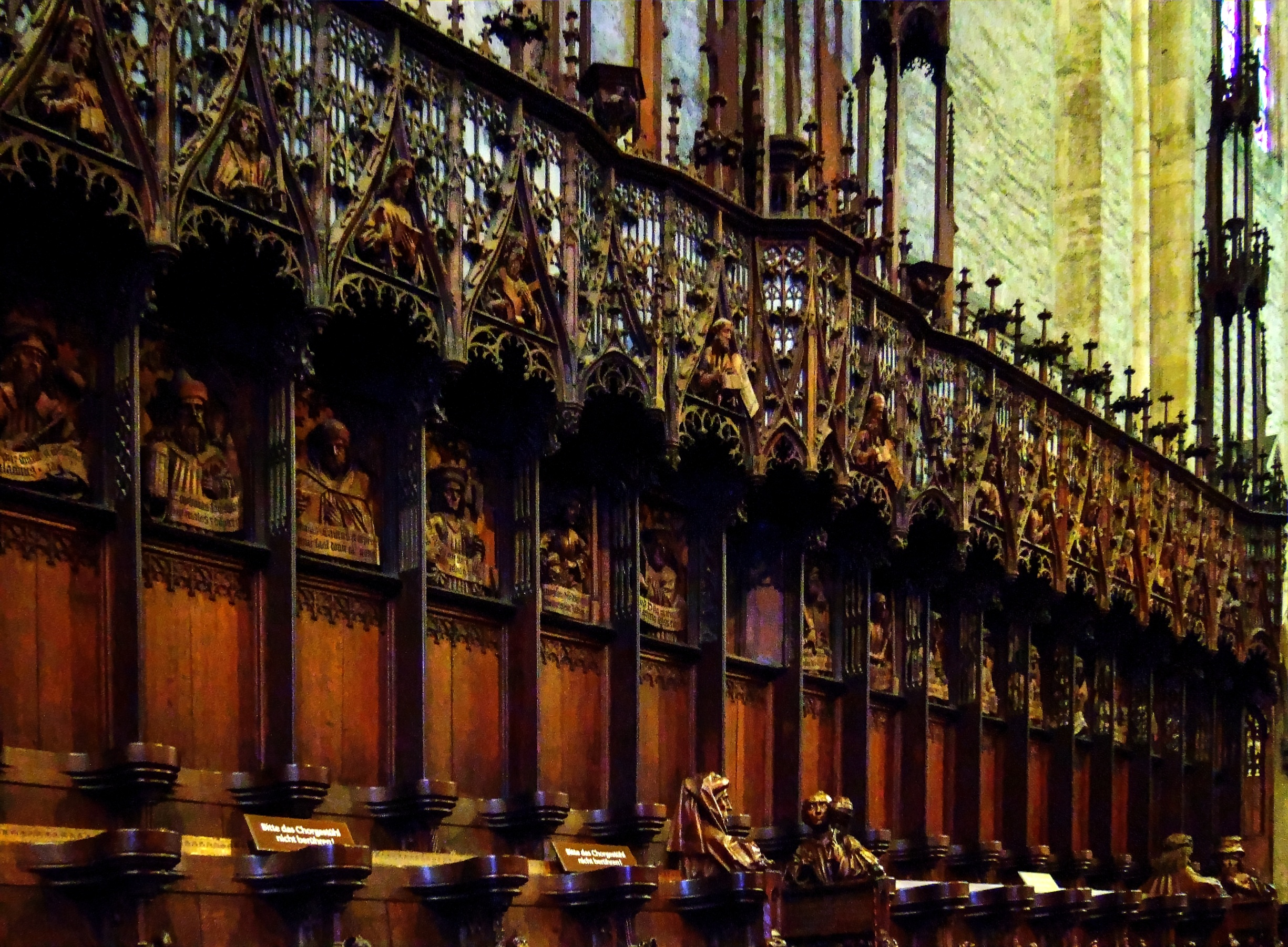 The Lutheran cathedral "Ulm Münster" of Ulm/Germany, choir stalls